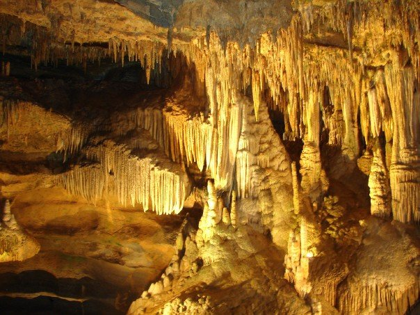 Picture of the geologic formations inside Luray caverns